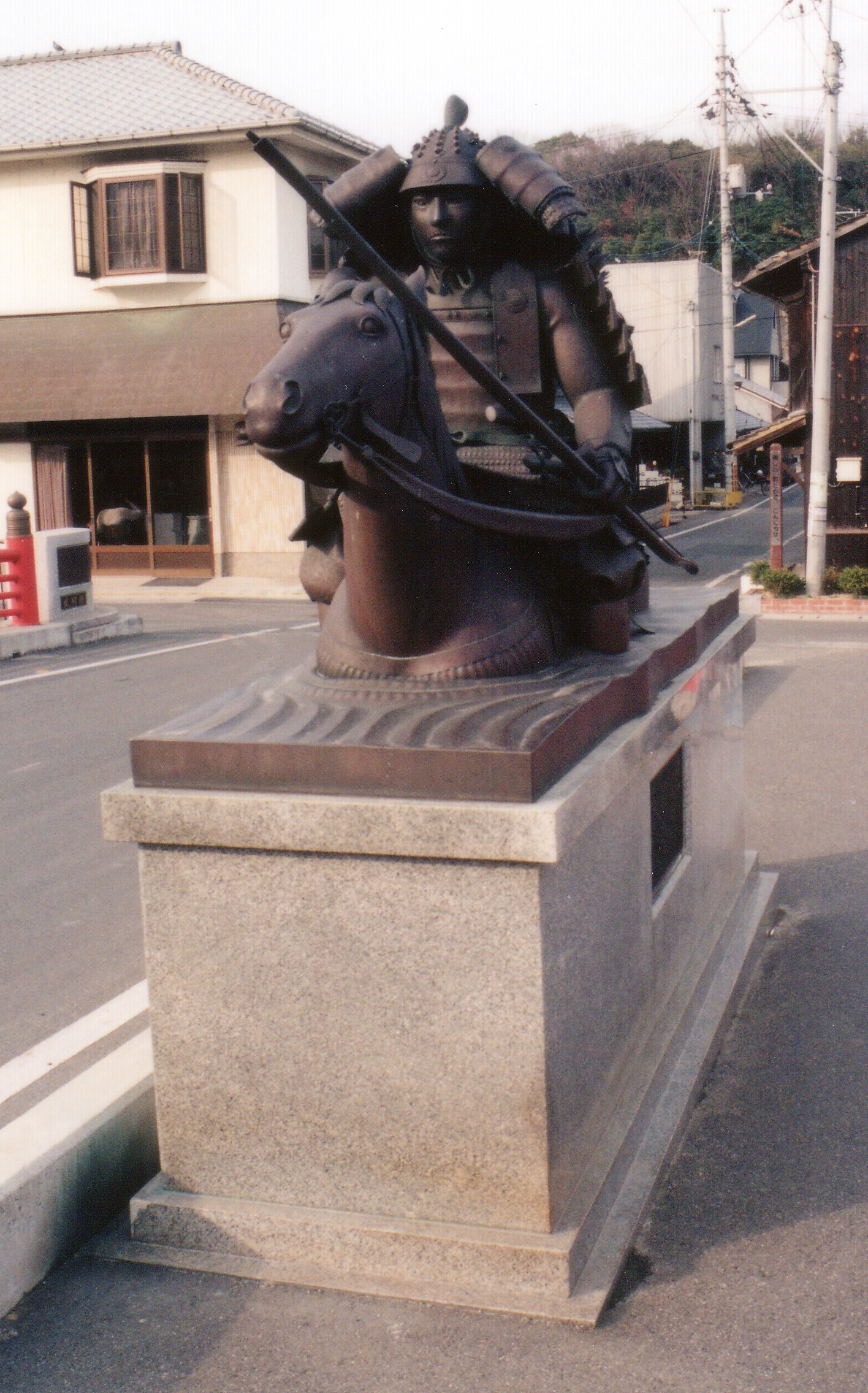 The statue of Sasaki Moritsuna at Fujito, Kurashiki, Japan